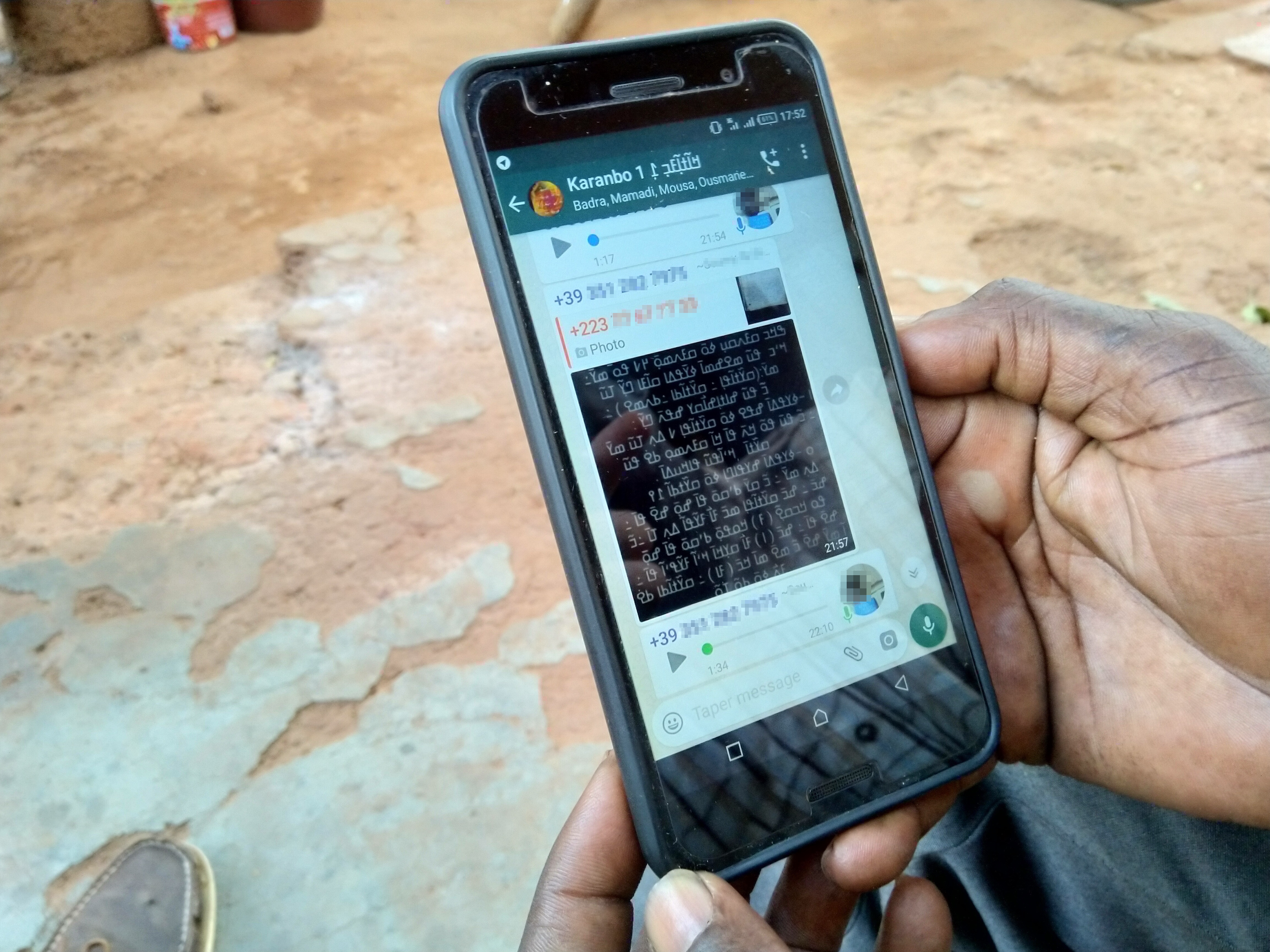 A picture of a man holding his cellphone in which one can view an online WhatsApp-based N'ko classroom with the phone numbers and faces of users blurred out